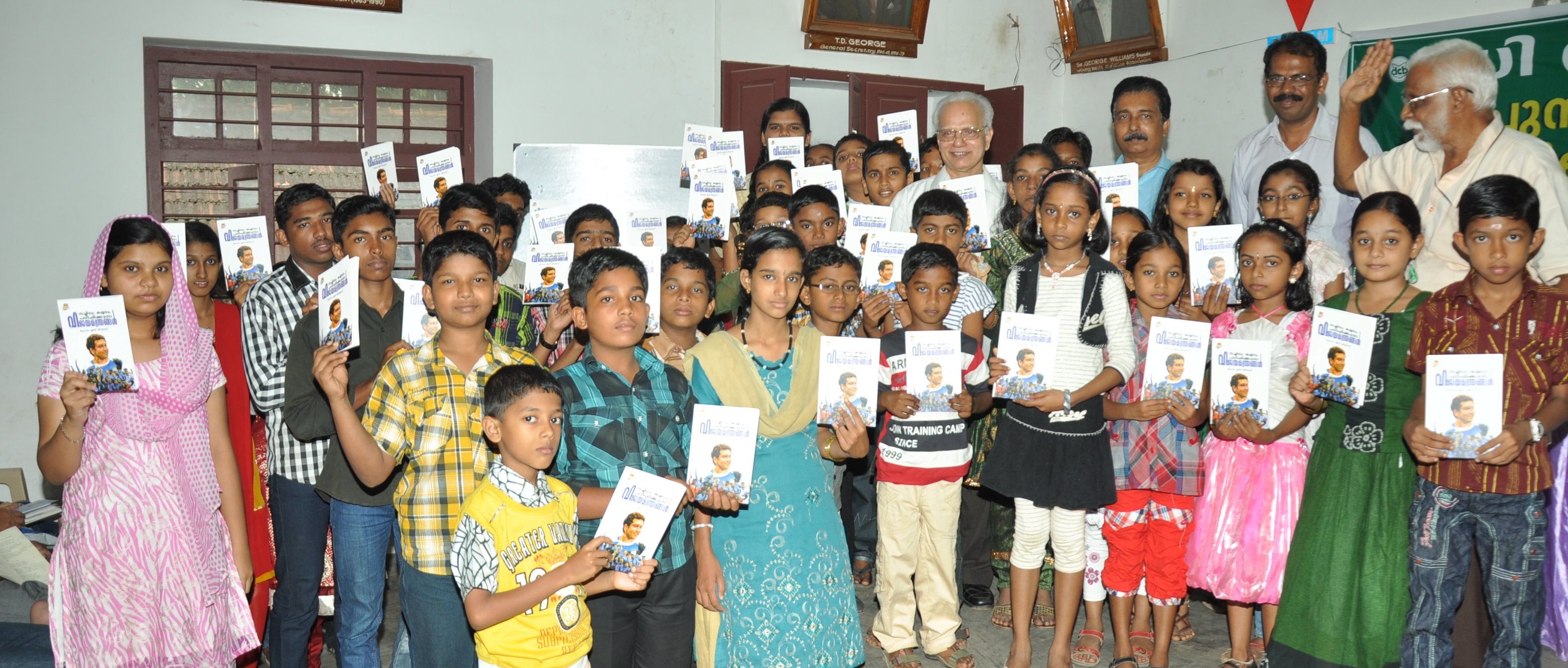 Prof.Sivadas's book release at Kollam